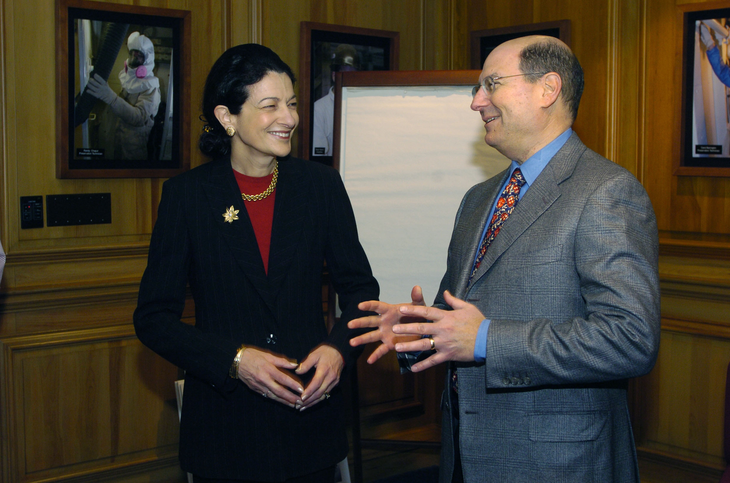 Bath, Maine (Jan. 20, 2006) – Senator Olympia Snowe, and Secretary of the Navy (SECNAV) the Honorable Dr. Donald C. Winter, meet in the boardroom at Supervisor Shipbuilding, Bath Iron Works. SECNAV is in the northeast for a tour to familiarize himself with the construction, operation and maintenance of the U.S. Navy's Submarine Fleet. U.S. Navy photo by Chief Journalist Craig P. Strawser (RELEASED)